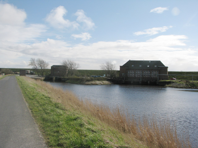 The so-called 'Arlauschleuse' was the Sluice of the Arlau, a small river in Northern Frisia, Germany up to the year 1987. It contains of a small sewer (left-handed) and a bigger Pumping-station (right-handed)